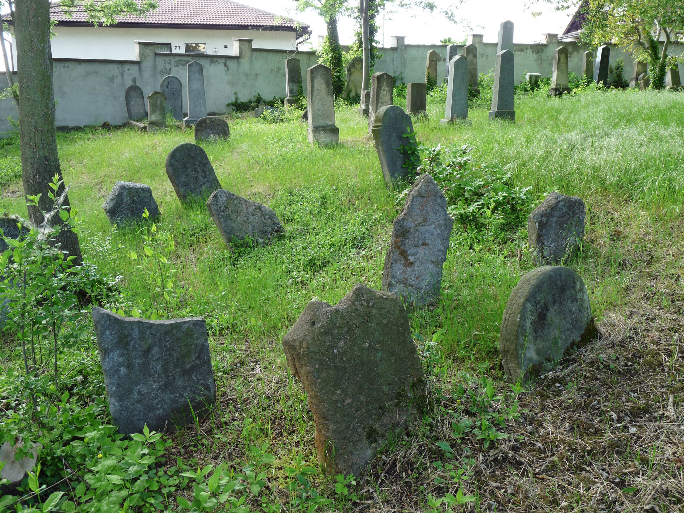 Jewish cemetery in the munucipality of Byšice, Mělník District, Central Bohemian Region, Czech Republic.